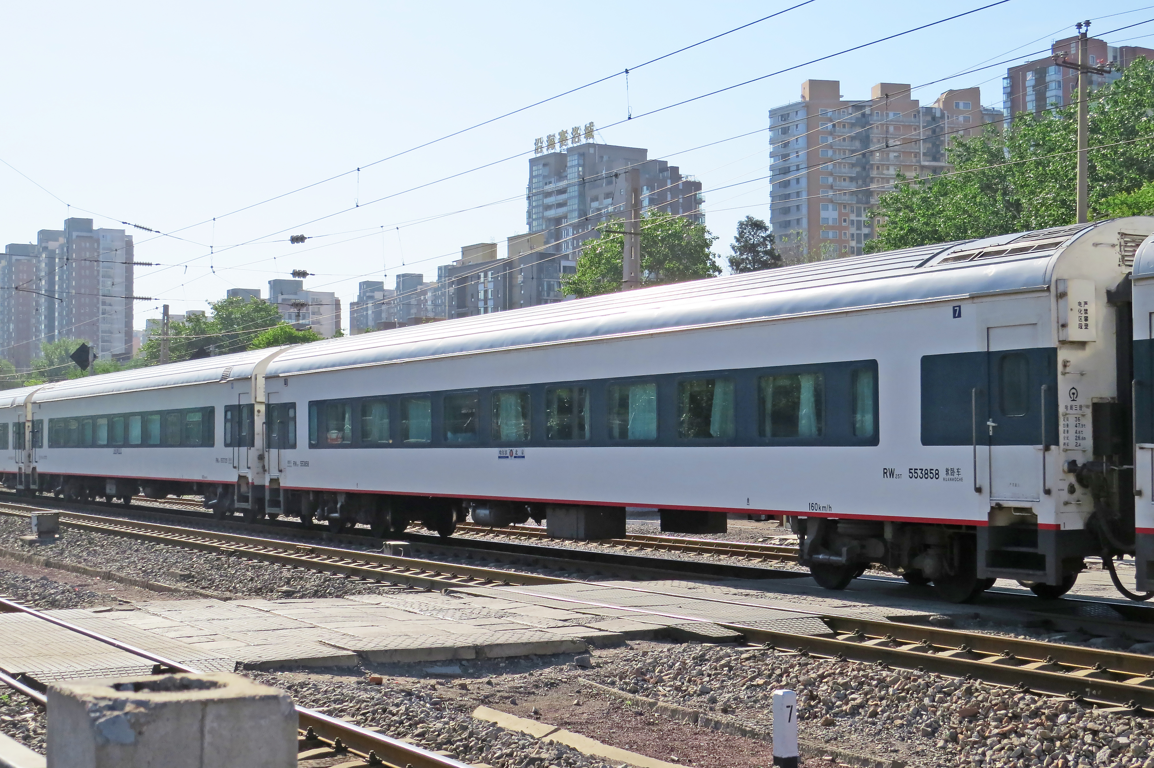 Z2 from Harbin. The train number will become Z18 since 10 May 2016.